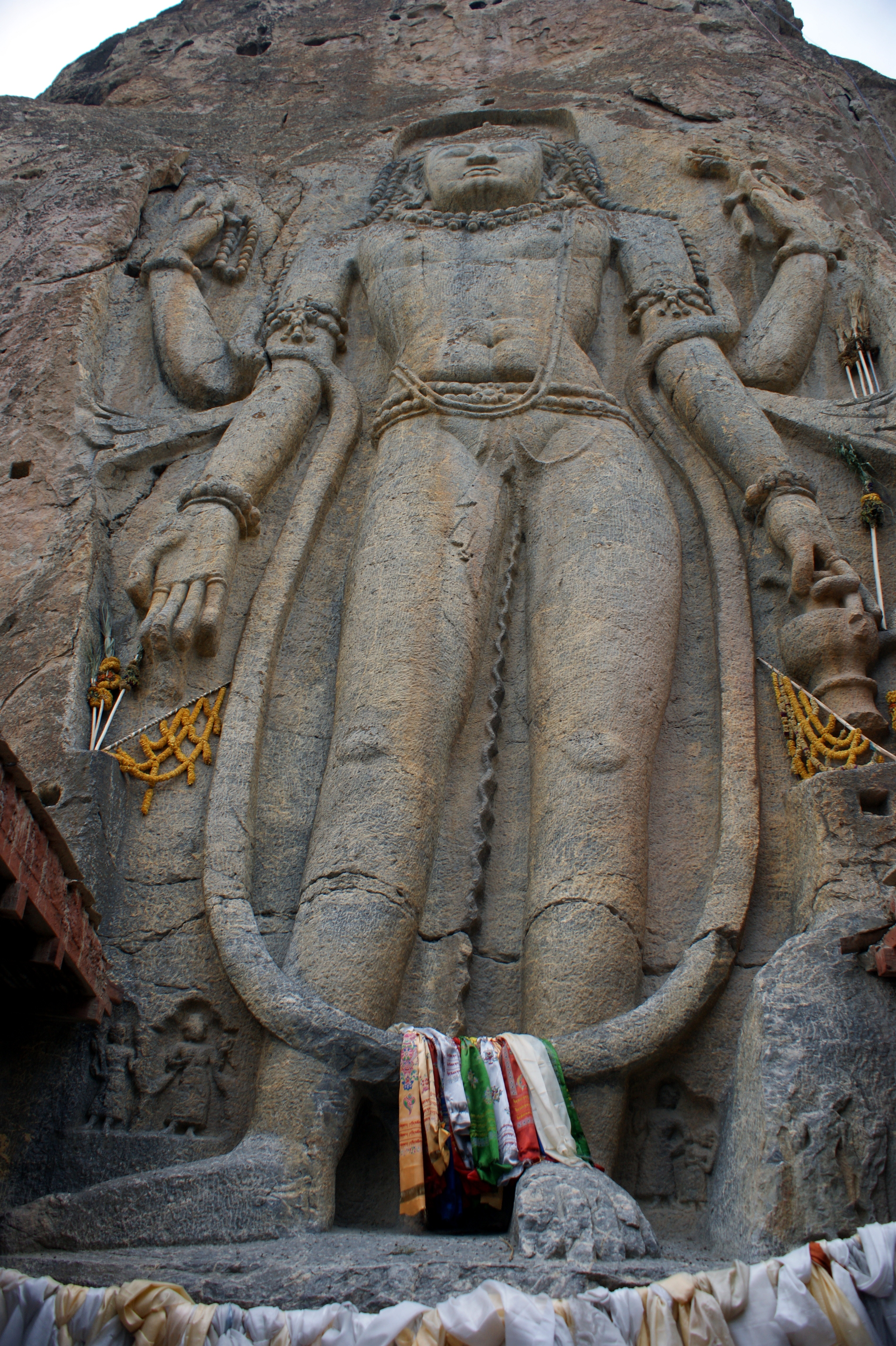 Maitreya Buddha, carved into the rock